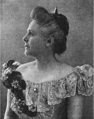 Alice Ives Breed, from an 1898 publication.